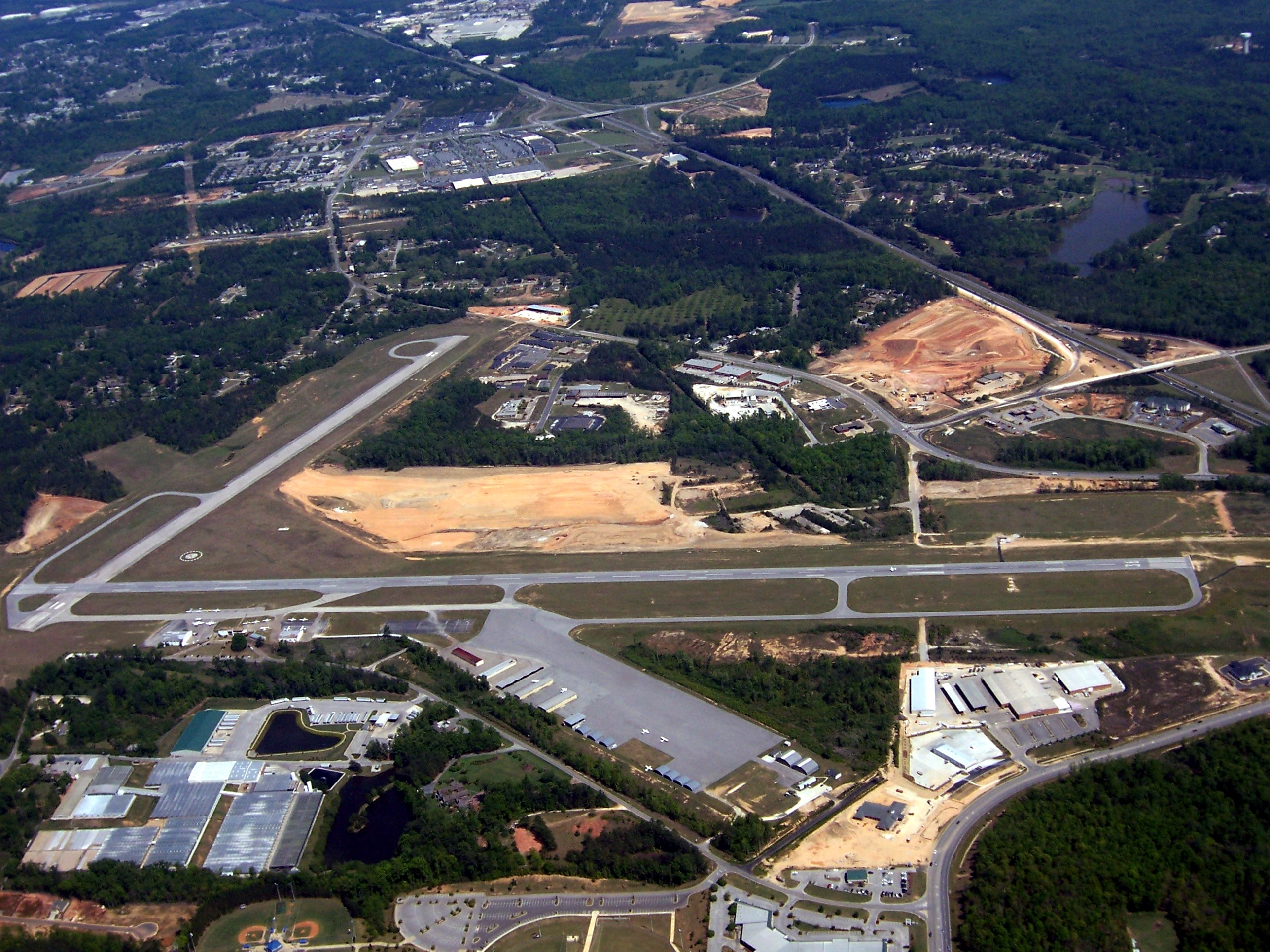 Aerial view of the Auburn-Opelika Robert G. Pitts Airport in Auburn, Alabama.